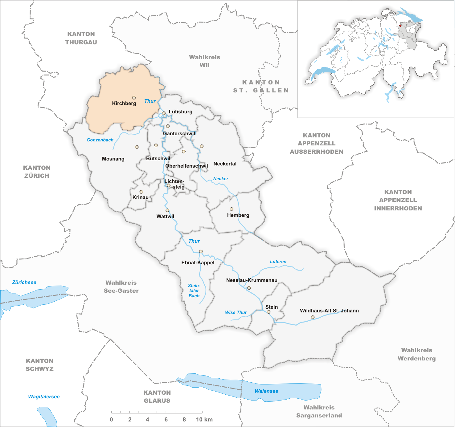 Municipality Kirchberg